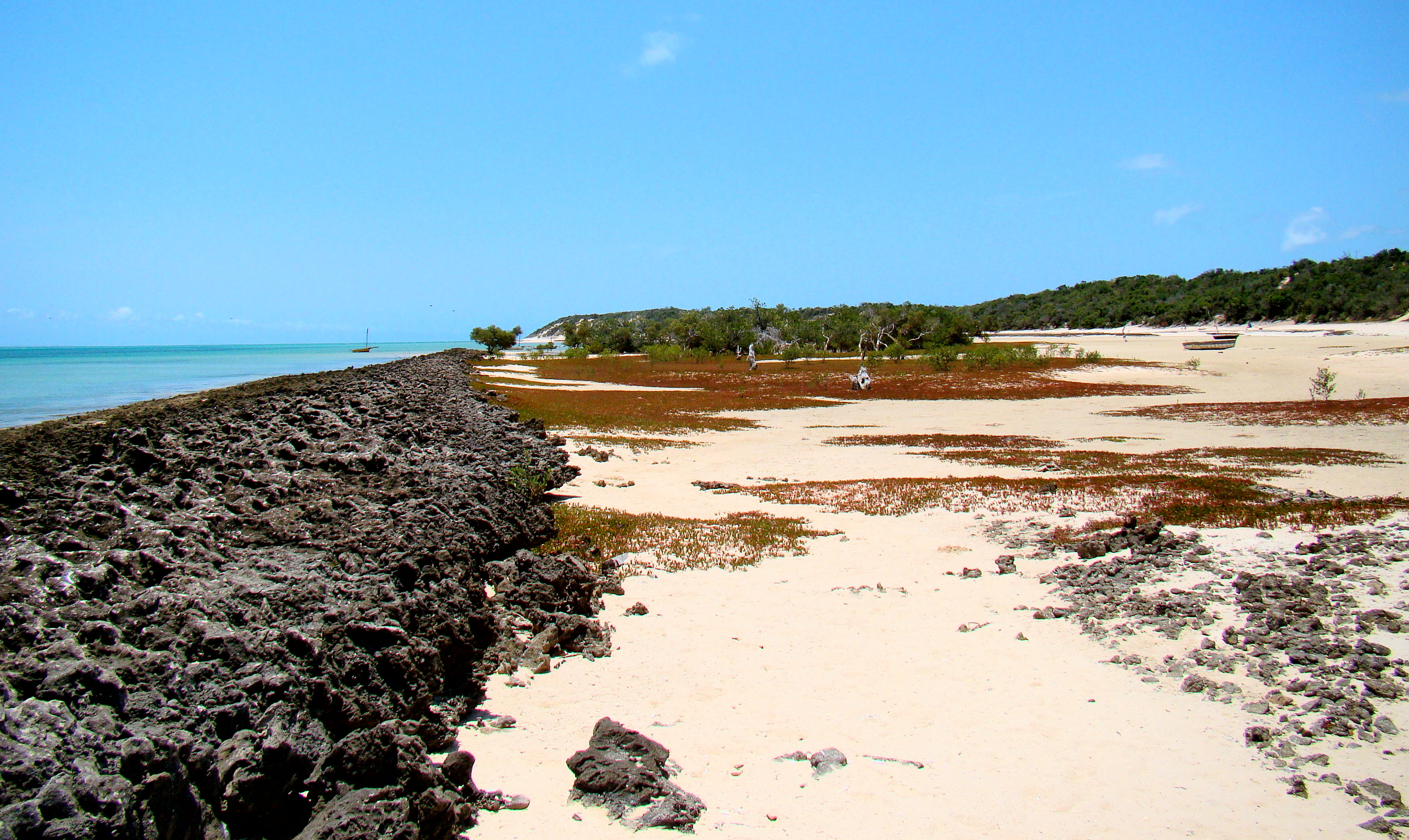 A small bay, roughly 2 kilometres north of the southern end of Ilha Bazaruto. An old barrier reef has surfaced and trapped sand, building a place to grow for a young mangrove forest.